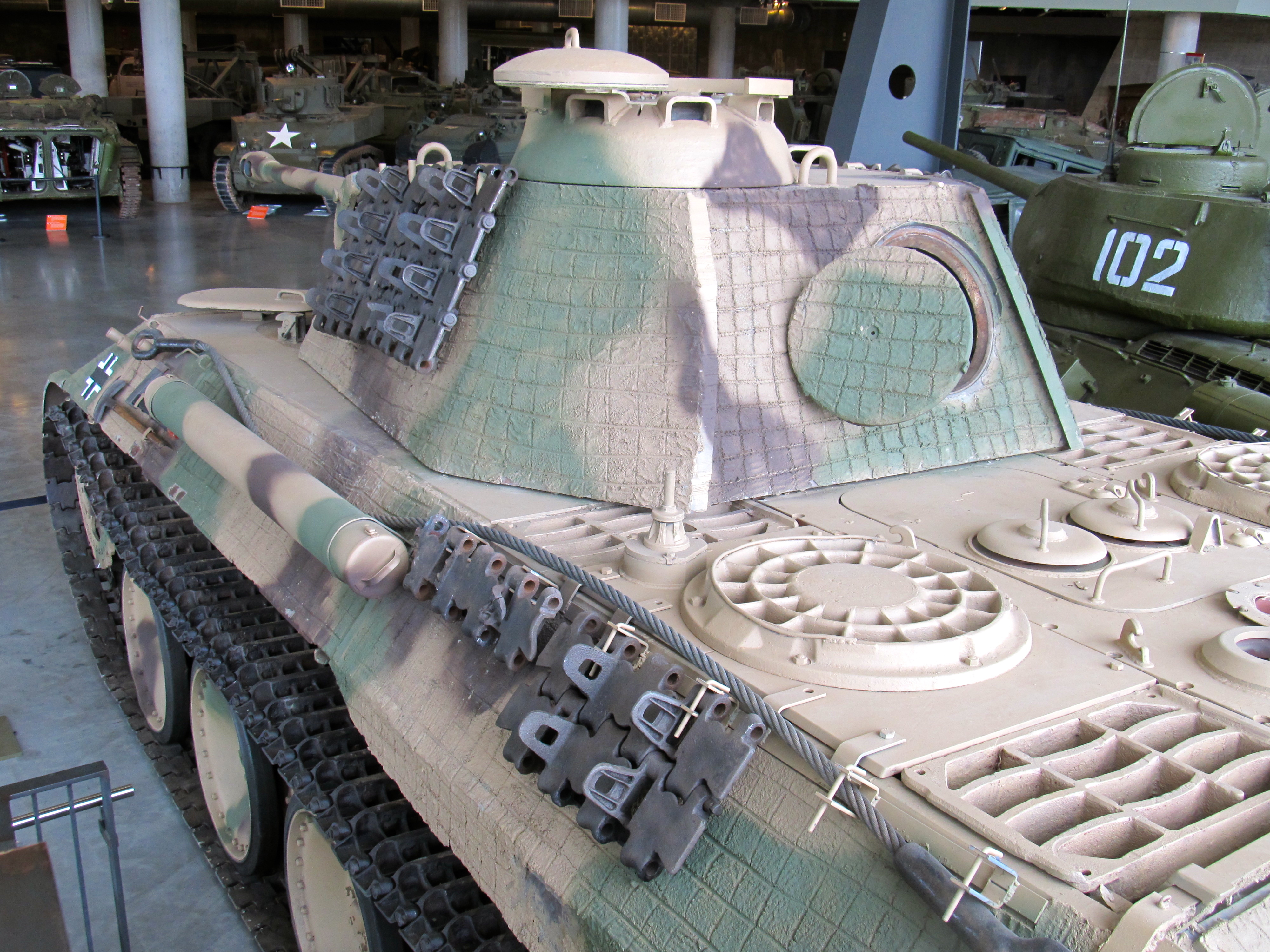 Panther tank in Canadian War Museum, Ottawa.